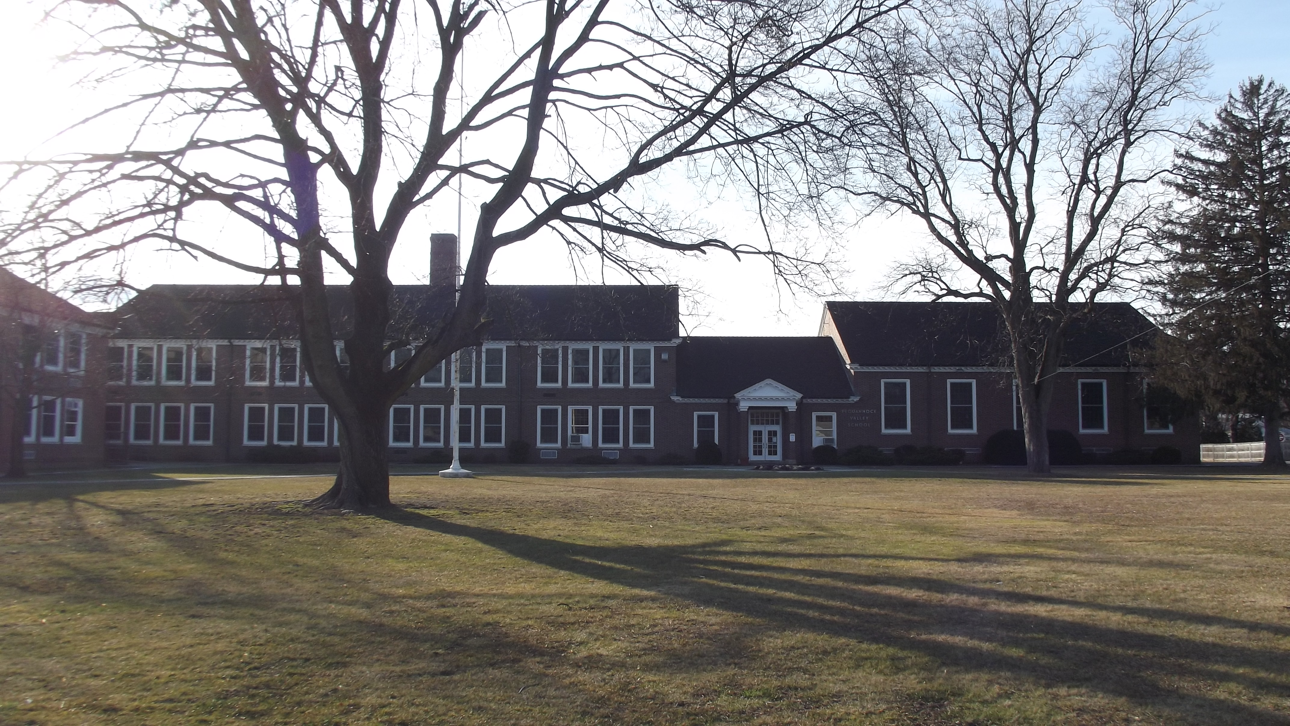 Copyright free image of Pequannock Valley Middle School taken by Christopher Lotito, March 2012.